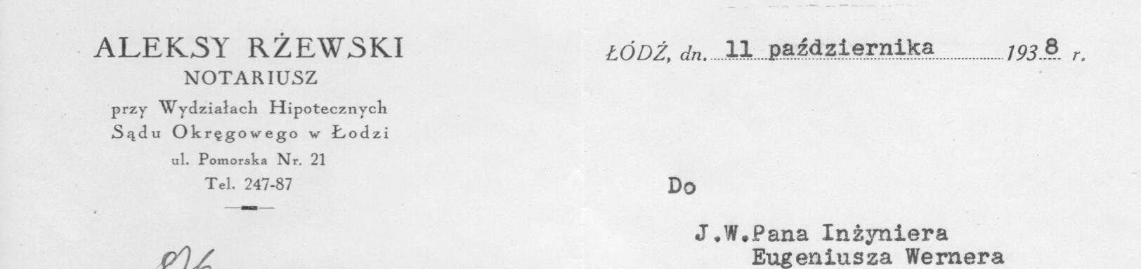 Nagłówek druku firmowego kancelarii notarialnej Aleksego Rżewskiego, prezydenta Łodzi w latach 1919-1923.